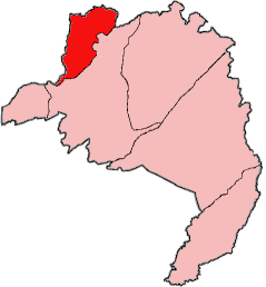 Map of Lofa County, Liberia showing Foya District; created with the GIMP. Made by User:Acntx.